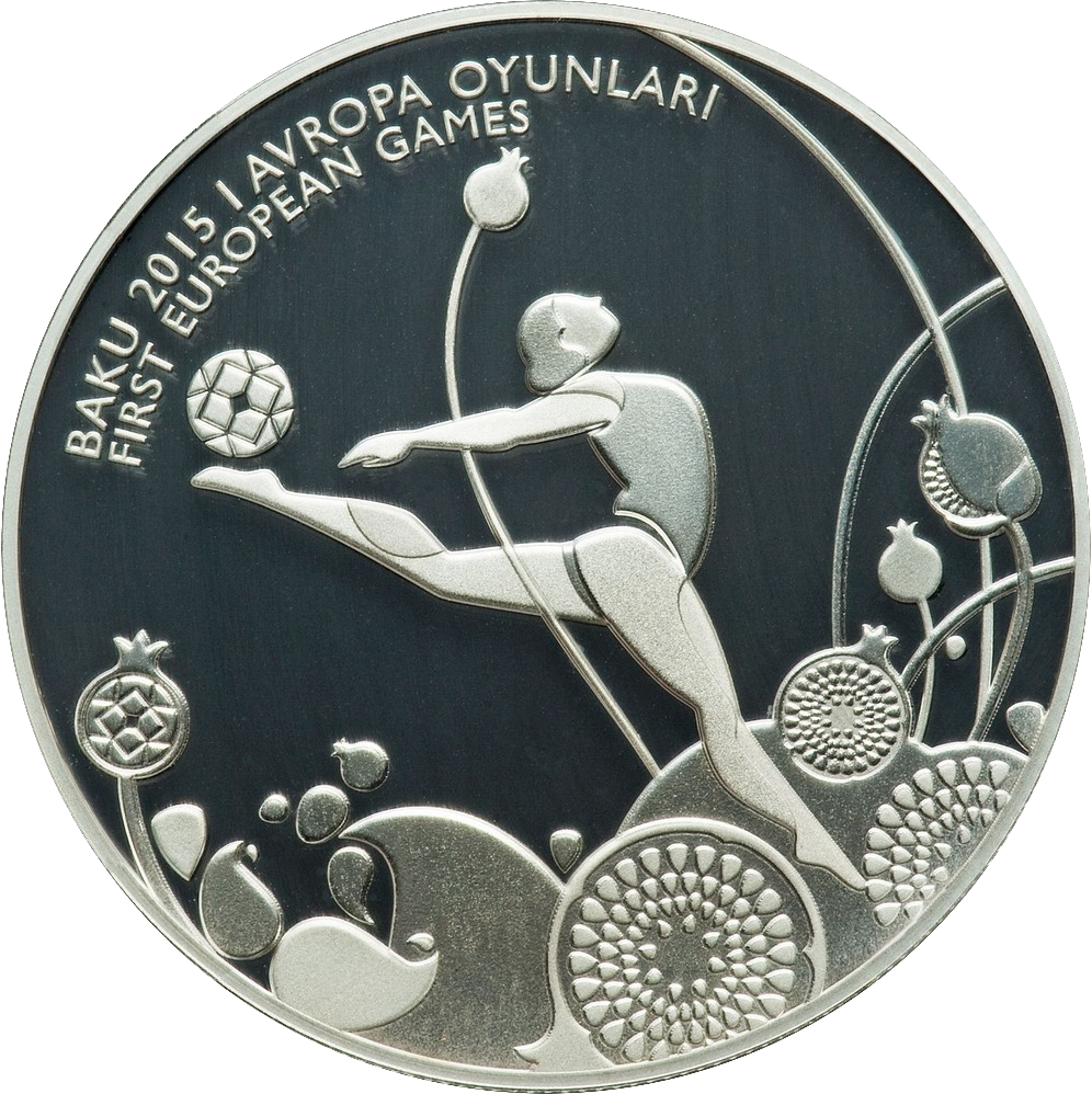 Commemorative coin of Azerbaijan